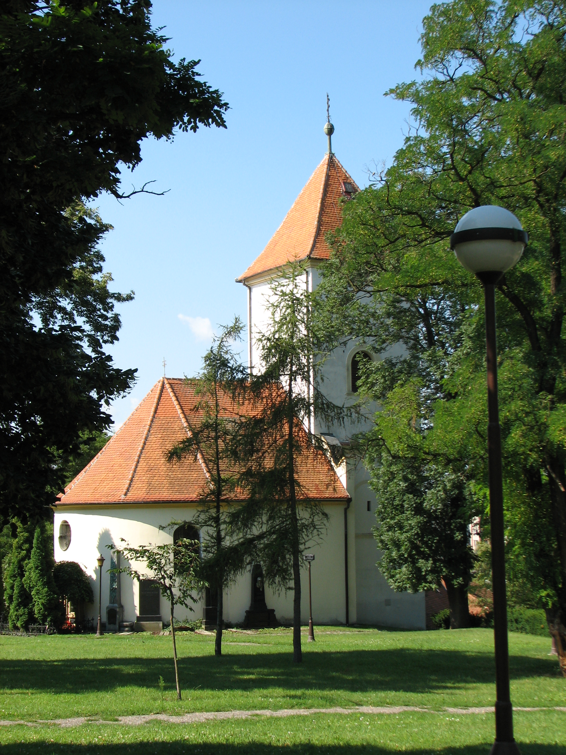 Kyjov - St. Martin's chapel